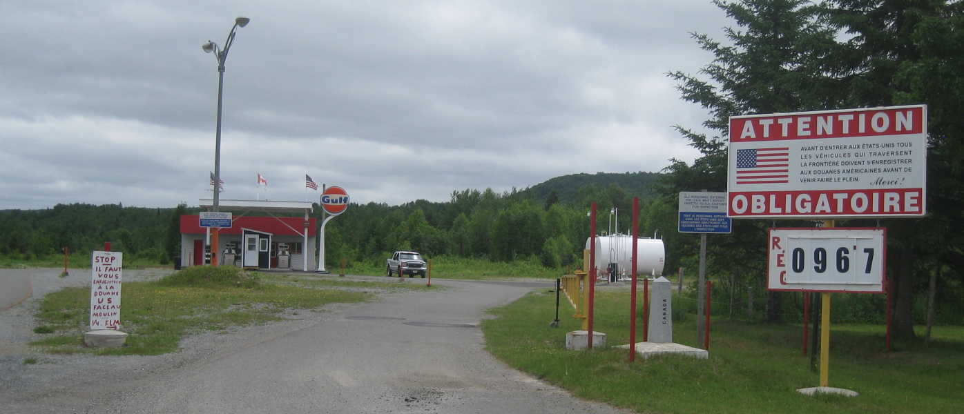 'Gaz Bar Maine', a gas station in Estcourt Station, Maine, United States, approximately 50 meters from the US/Canada border, 400 meters from the northernmost point in Maine, and without any road access to the rest of the United States. Site of the Michel Jalbert incident. Price quoted in Canadian dollars (cents per liter.) Note US/Canada border monument (photo taken from Canada), and signs (no less than 5!) warning gasoline customers to report to US customs.